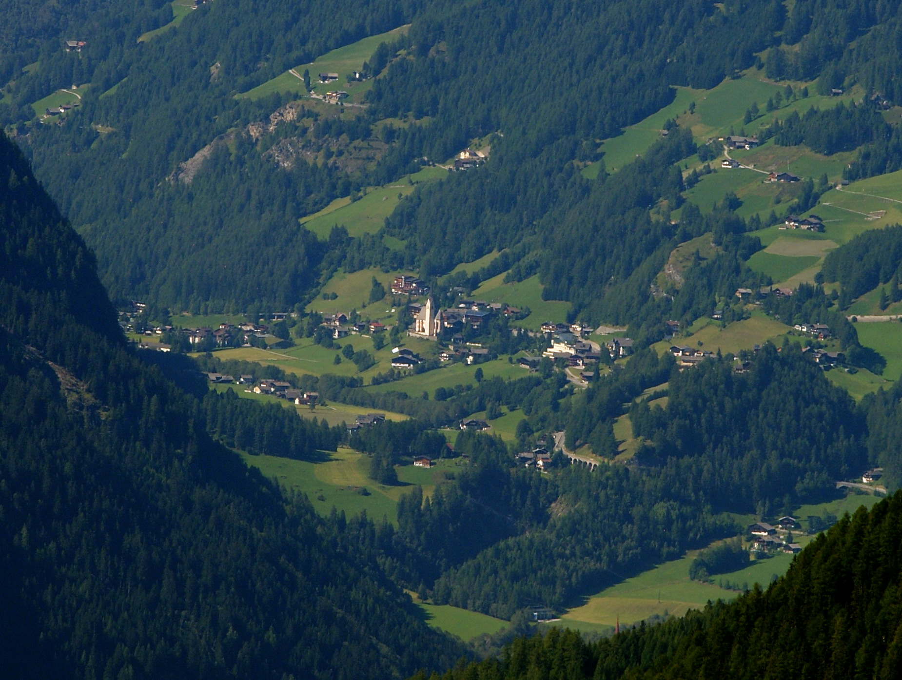 top view Heiligenblut